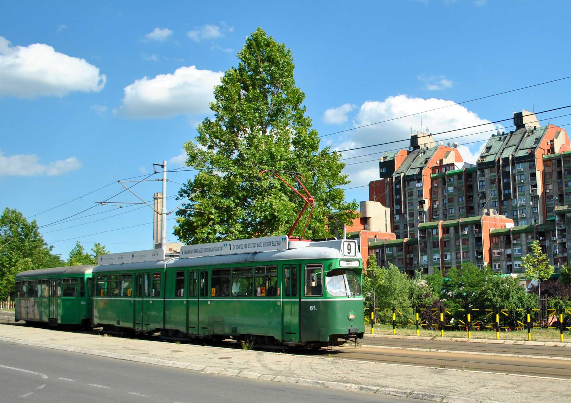 Duewag Be 4/6 Belgrad donation from Basel